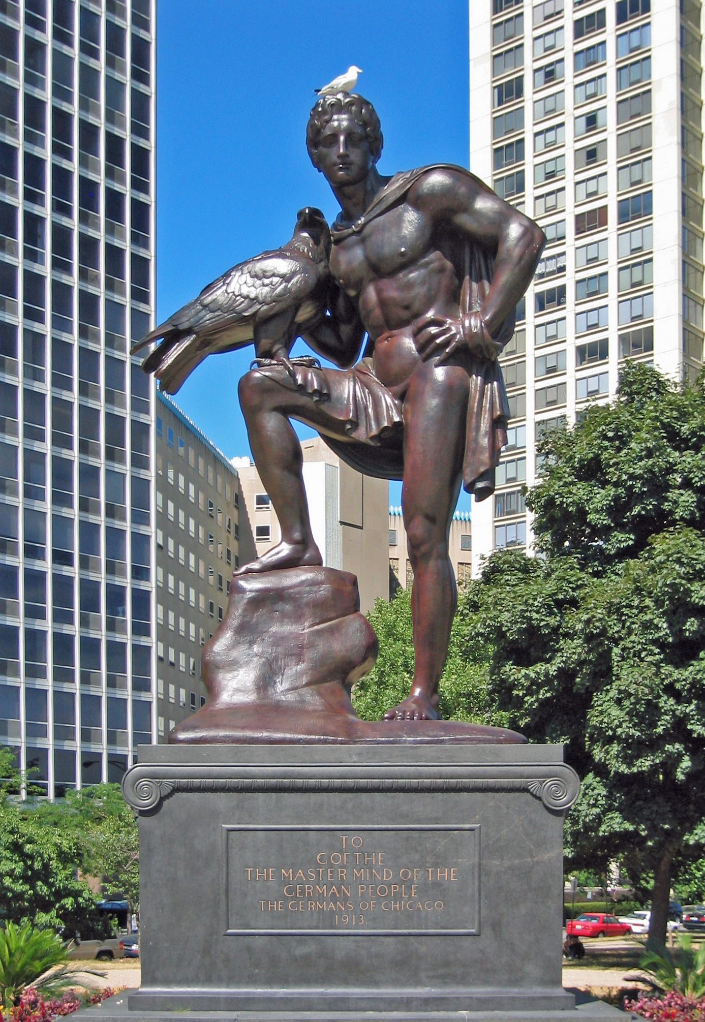 Goethe Monument in Chicago, Illinois, sculpted by Hermann Hahn (1913); dedicated on June 16, 1914. See Search results for Goethe Hahn. Collections Search Center. The Smithsonian Institution. Retrieved on 2011-08-17. Statue is located southwest of the well-known corner of W. Diversey Parkway and N. Lake Shore Drive. It fronts on Cannon Drive (just south of Diversey) and is east of N. Lakeview Ave. It is part of something of a sculpture garden with a gold statue of Alexander Hamilton and a more modest statue of John Peter Altgeld nearby. Also a big statue of elks at the nearby Elks Memorial Building, and something about world peace and brotherhood across the street from the Elks.